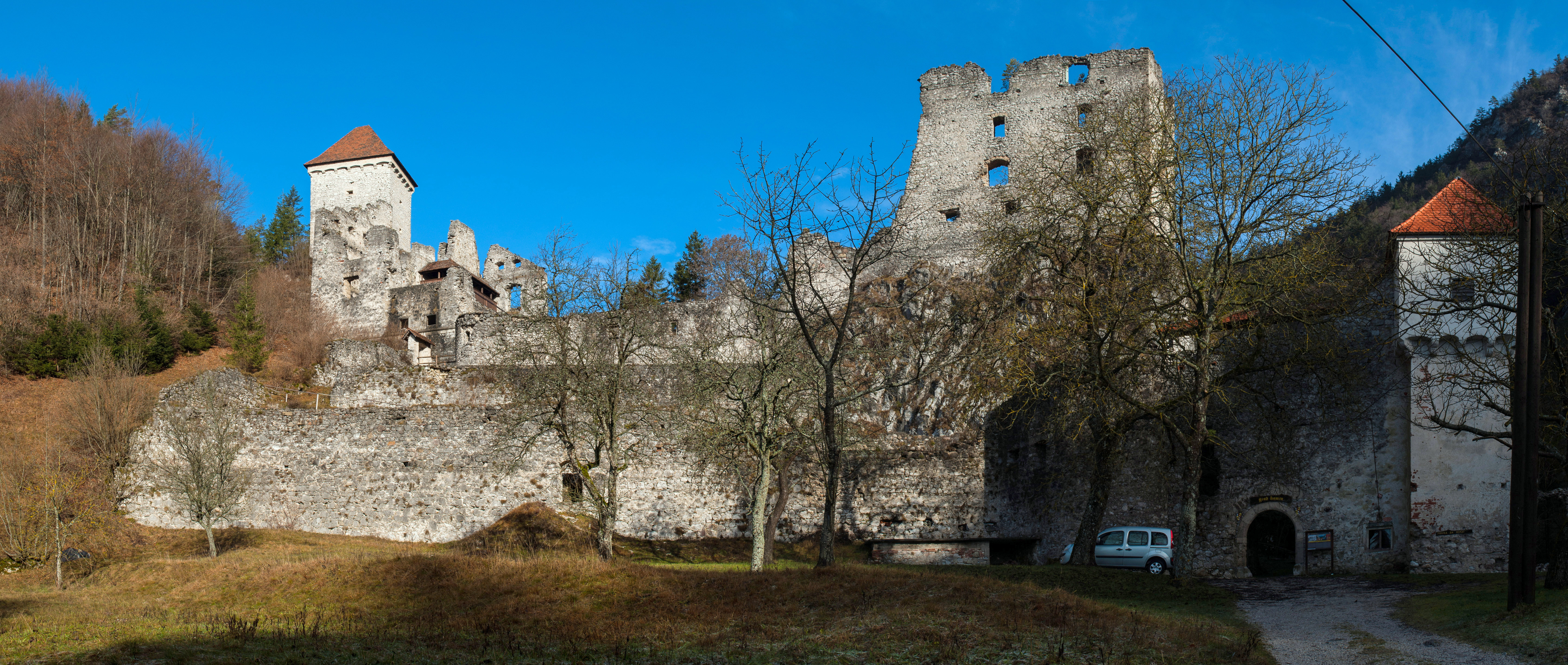 Kamen Castle